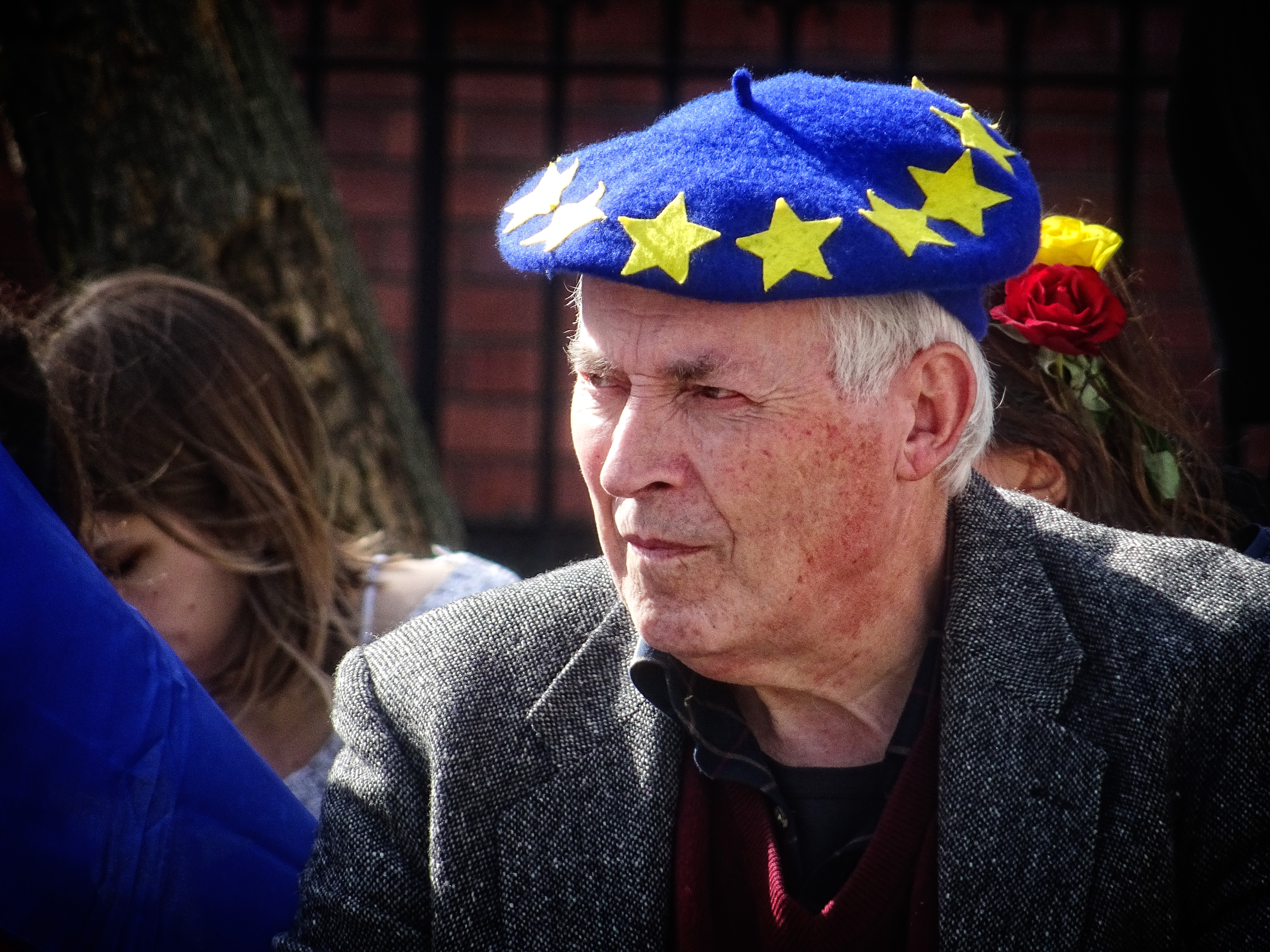 Photos taken at the #UniteForEurope march and rally at London's Parliament Square on Saturday 25th March 2017.